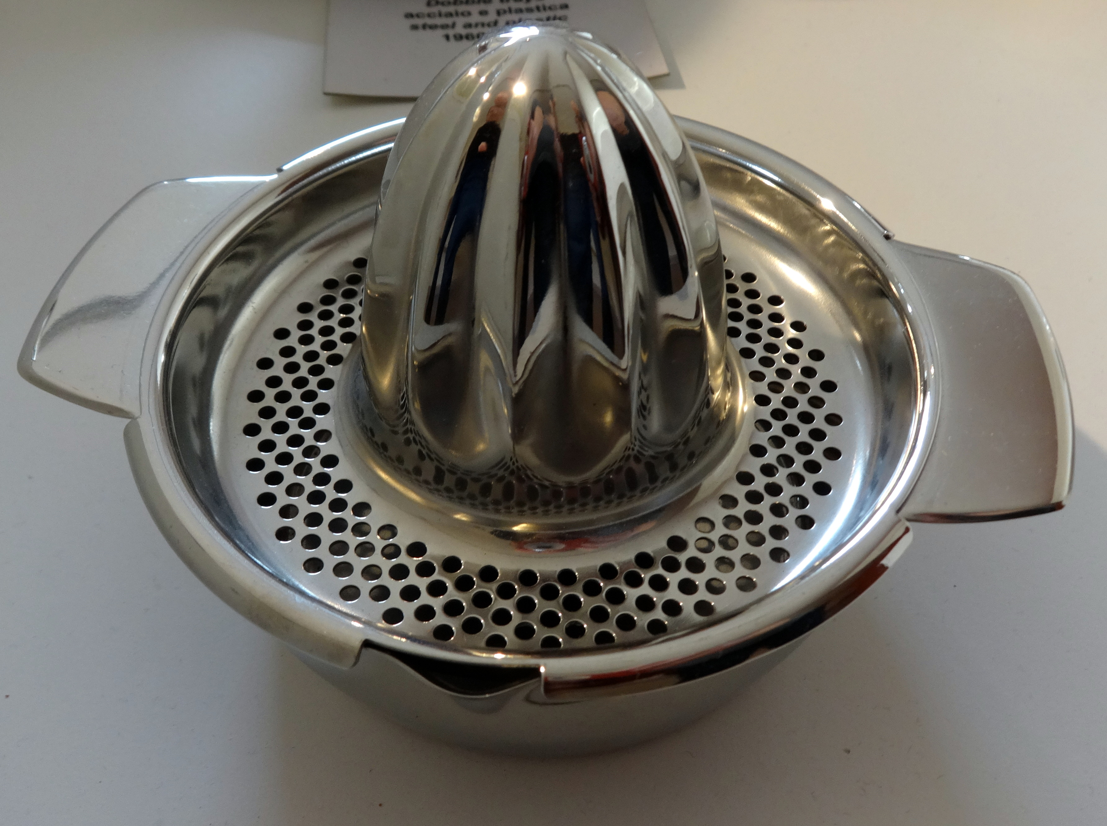 Lemon Squeezer, produced in 1975 by Piazza Effepi in Italy. On display in the industrial museum Omegna